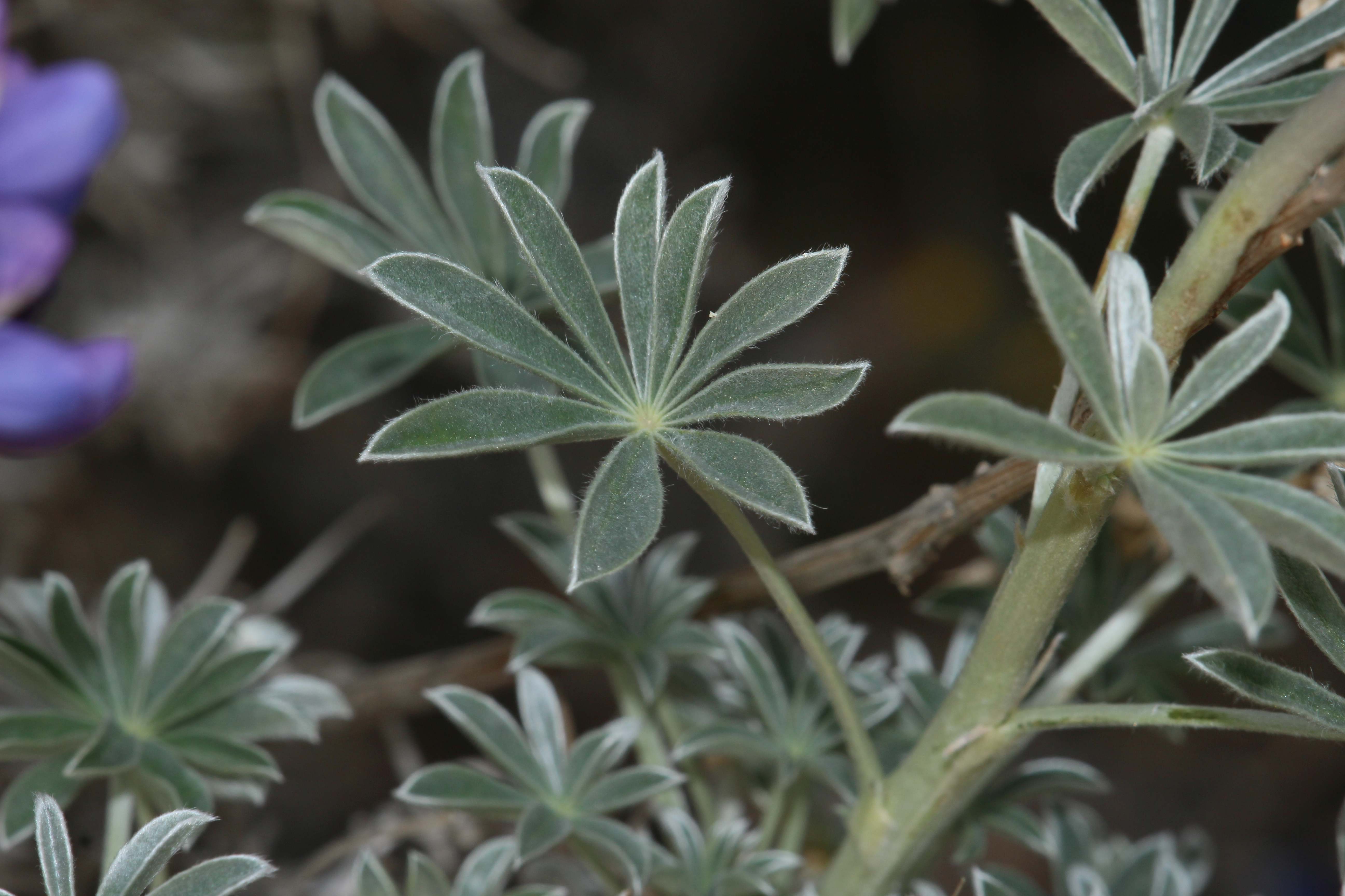 Grape Soda Lupine Identification by: Linda Edwards and Vern Benhart Viewpoint location: Dry wash at Lancaster Road and 240th Street West, west of Lancaster, California Viewpoint elevation: 919 meter (3015 ft) Location source: Garmin GPSmap 60CSx Location Datum: WGS84